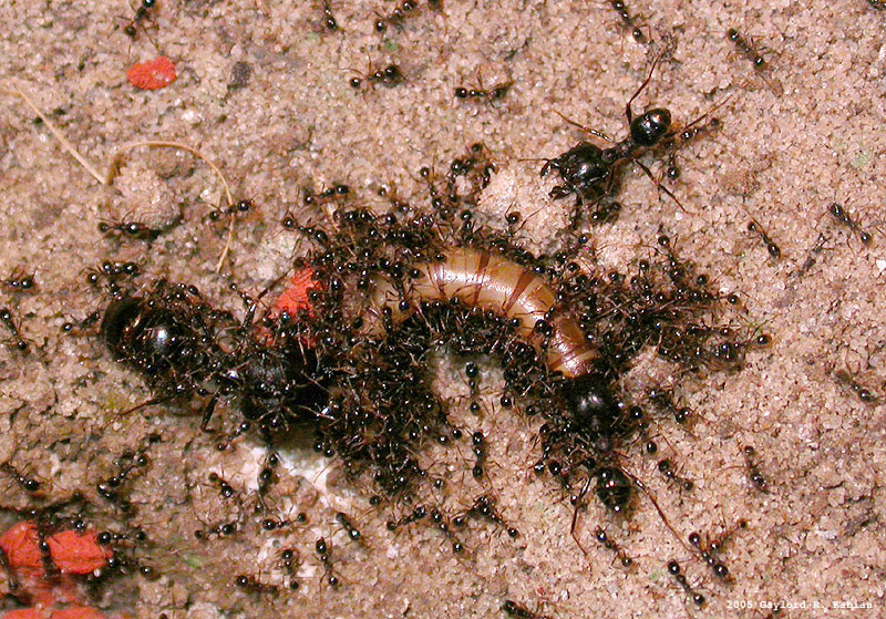 Pheidologeton diversus, catching food (a mealworm)